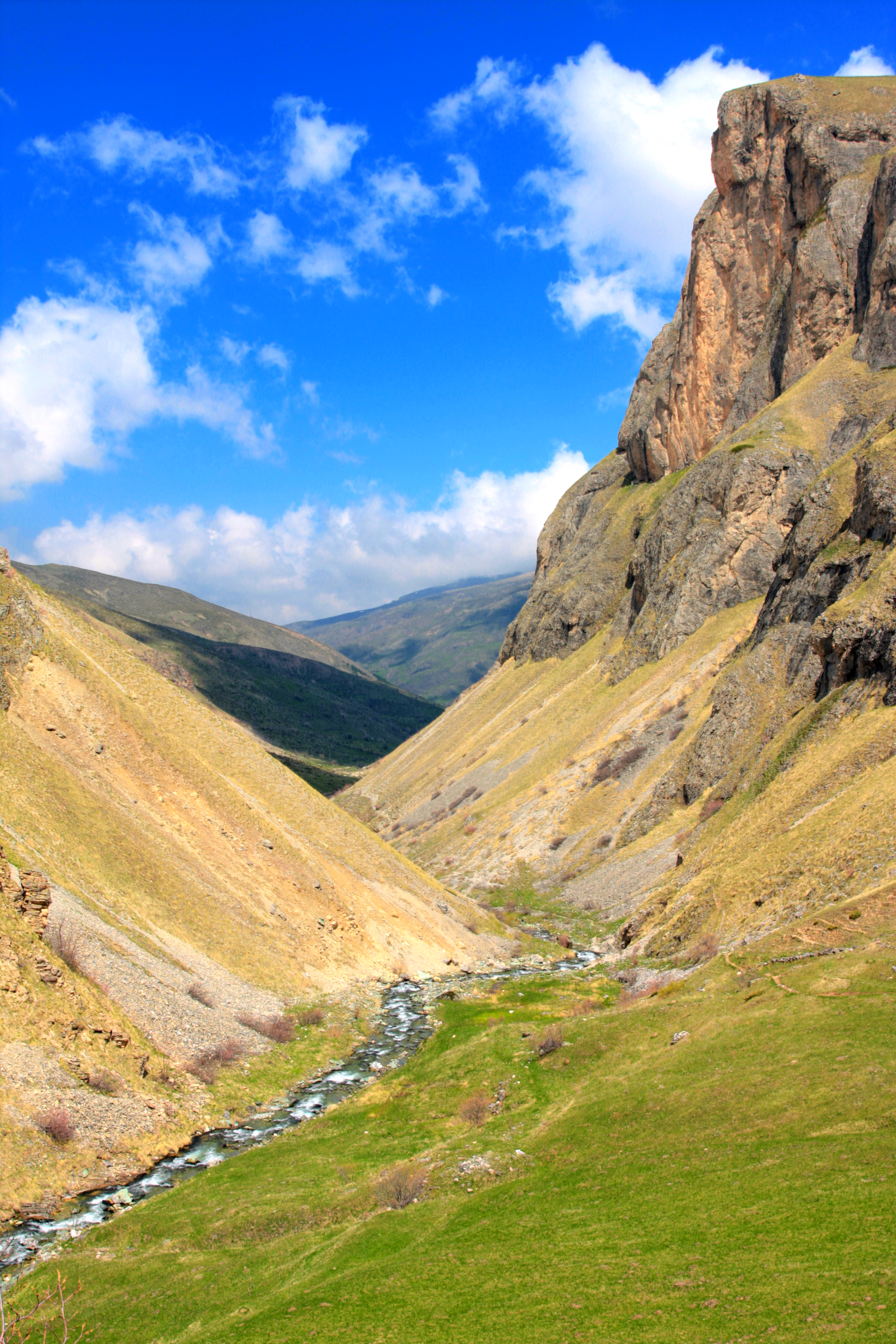 This photo is in Kosova at Brod near Dragash.